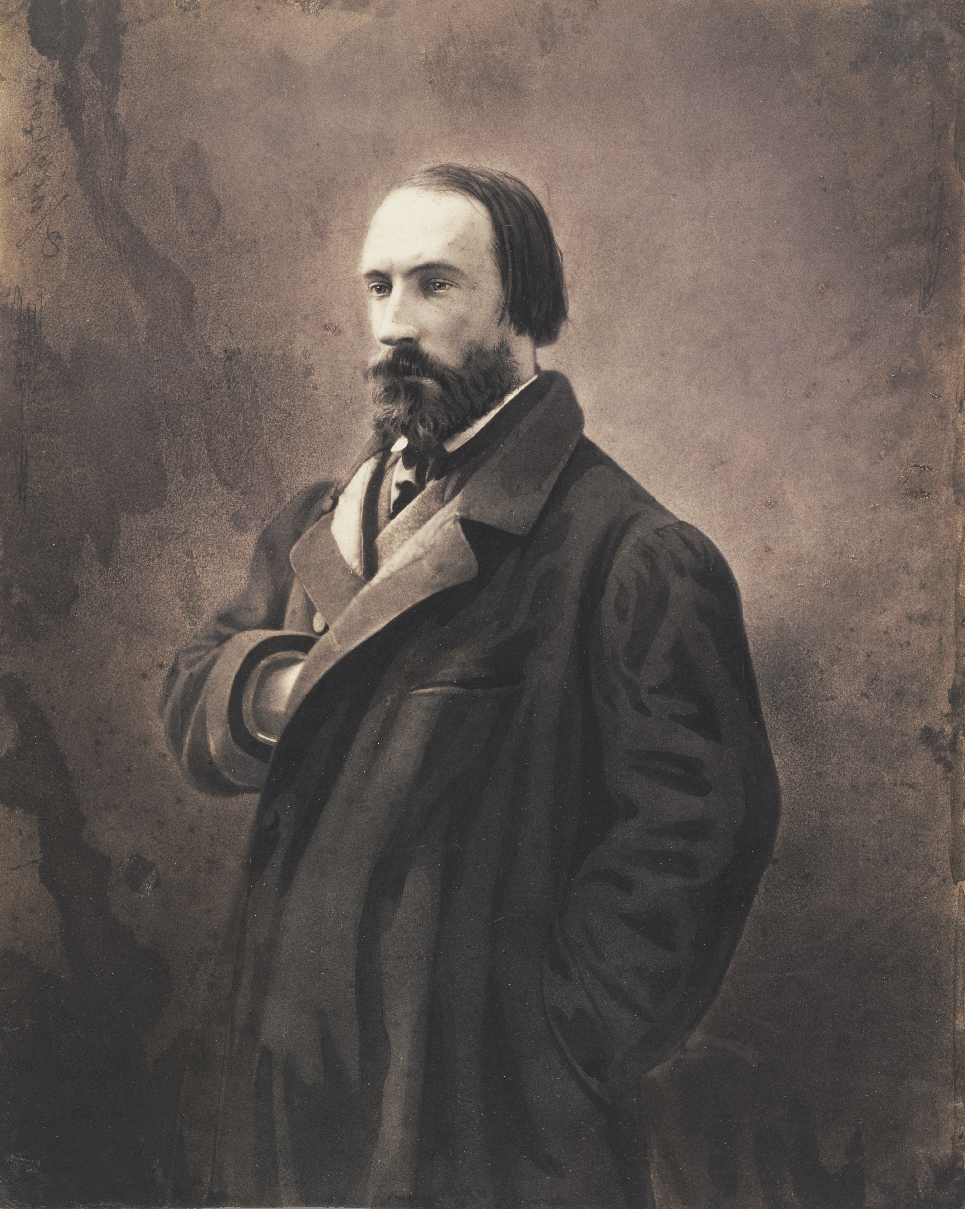 French poet and playwright Auguste Vacquerie (1819-1895)